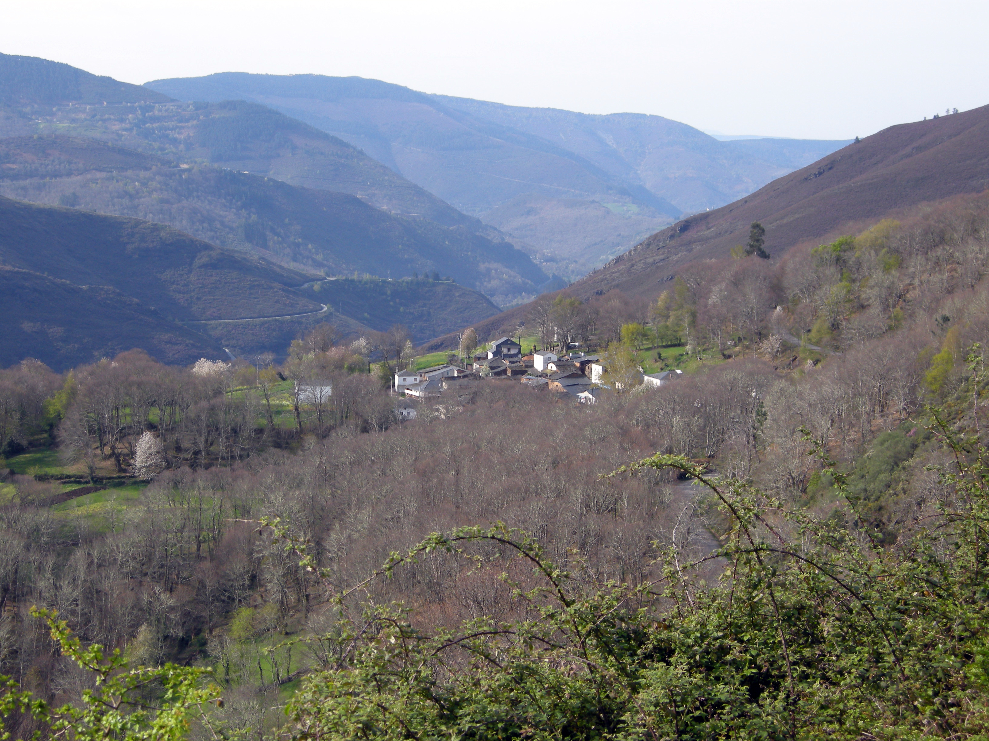 Sobredo, Folgoso do Caurel, april 2014